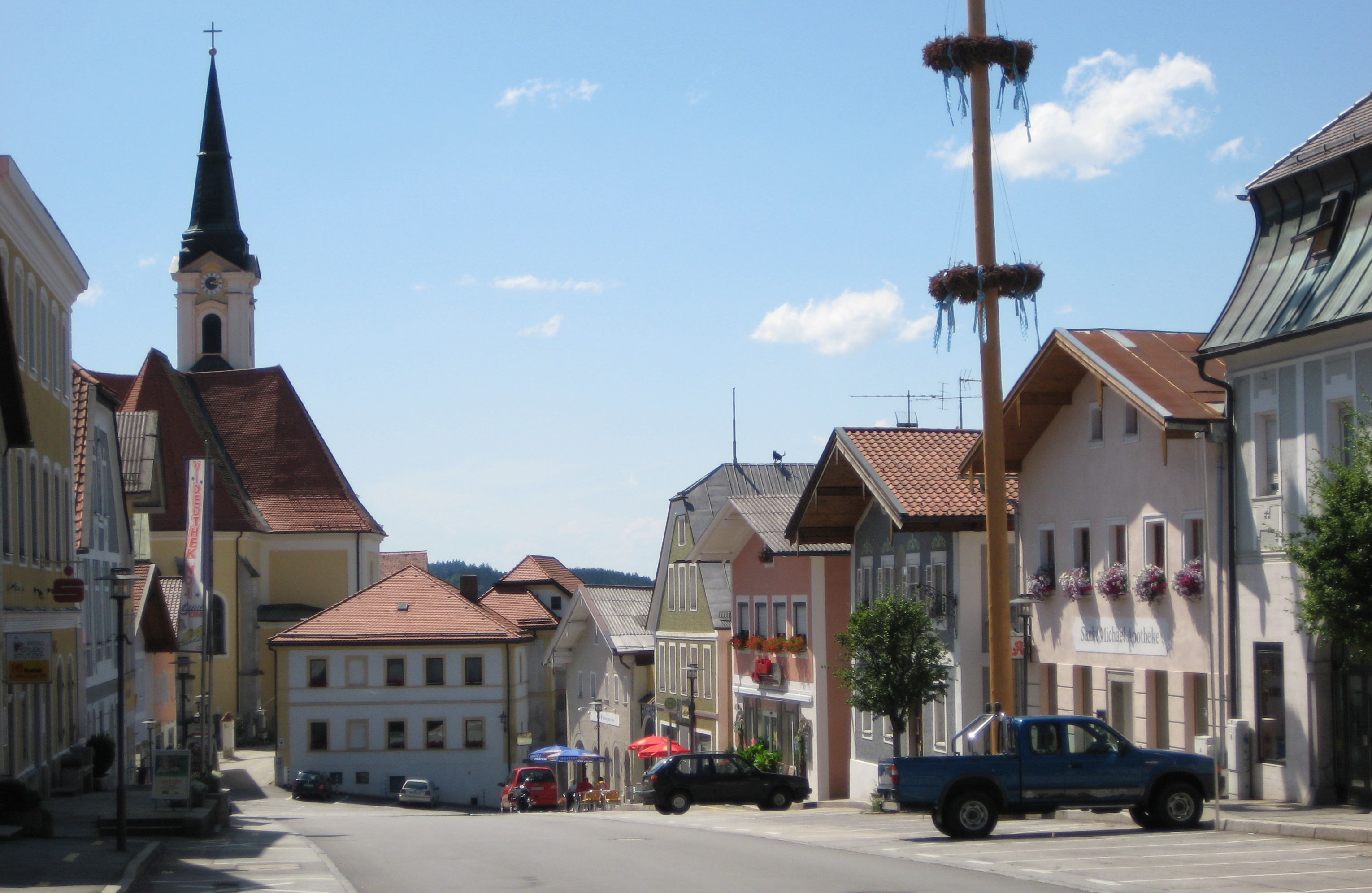 Untergriesbach